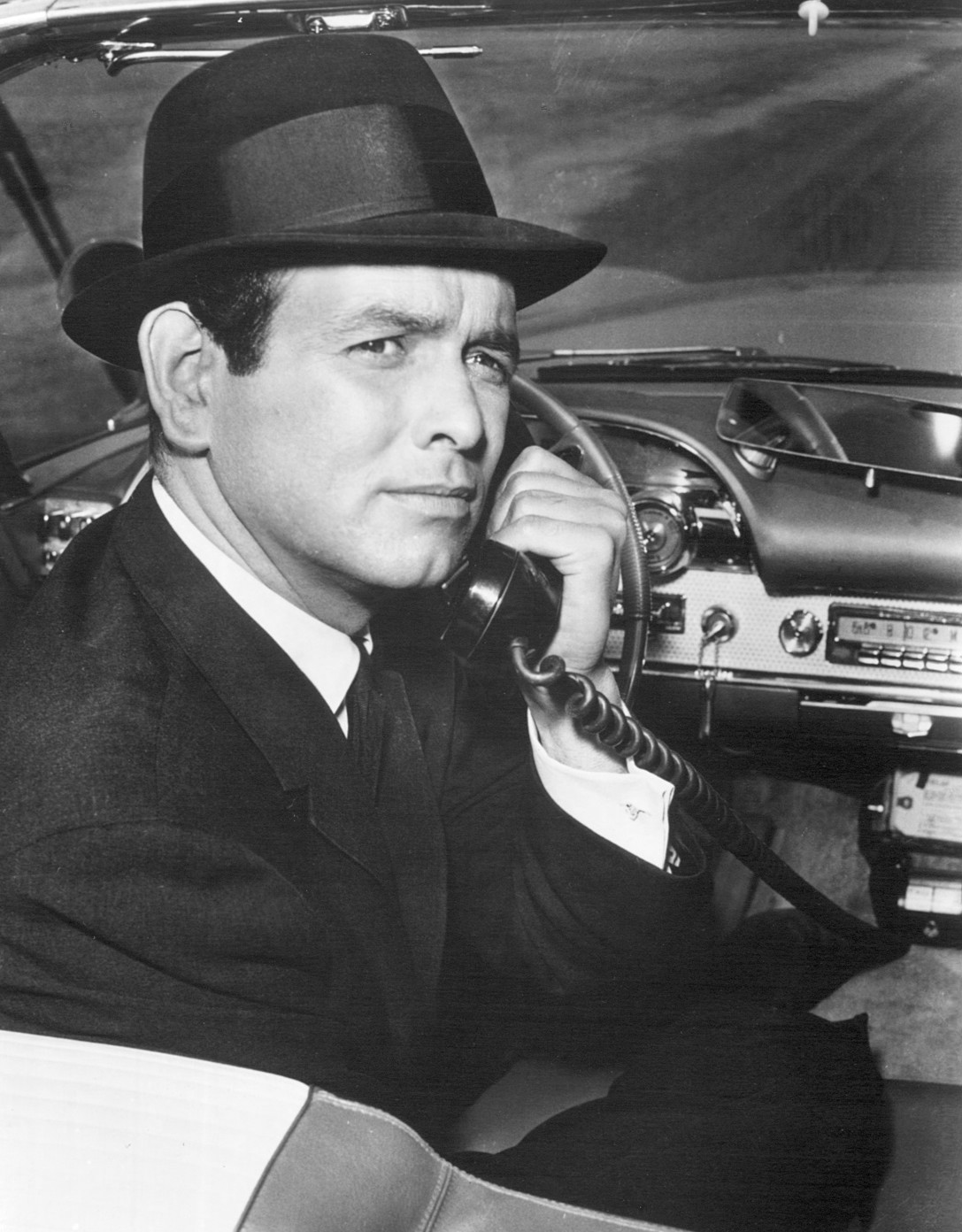 Photo of David Janssen from a guest star role in the television drama Route 66.